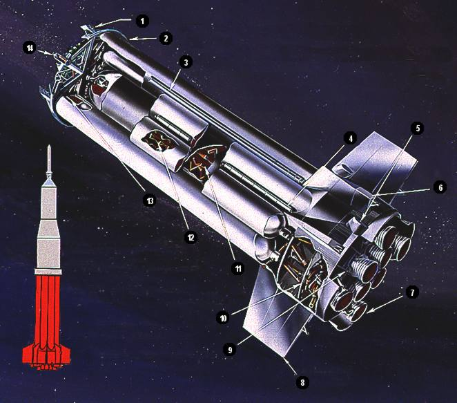 S-I Saturn I rocket first stage SATURN I -- S-I STAGE TV Camera movie Camera hydrogen chill-down duct cable tunnel 4 turbine exhaust ducts 4 stub fins 8 H-1 engines 4 fins heat shield firewall anti-slosh baffles 1-105" diameter LOX tank anti-slosh baffles 8-70" diameter tanks instrument compartment (typical F-1 & F-2) 4 retro-rockets